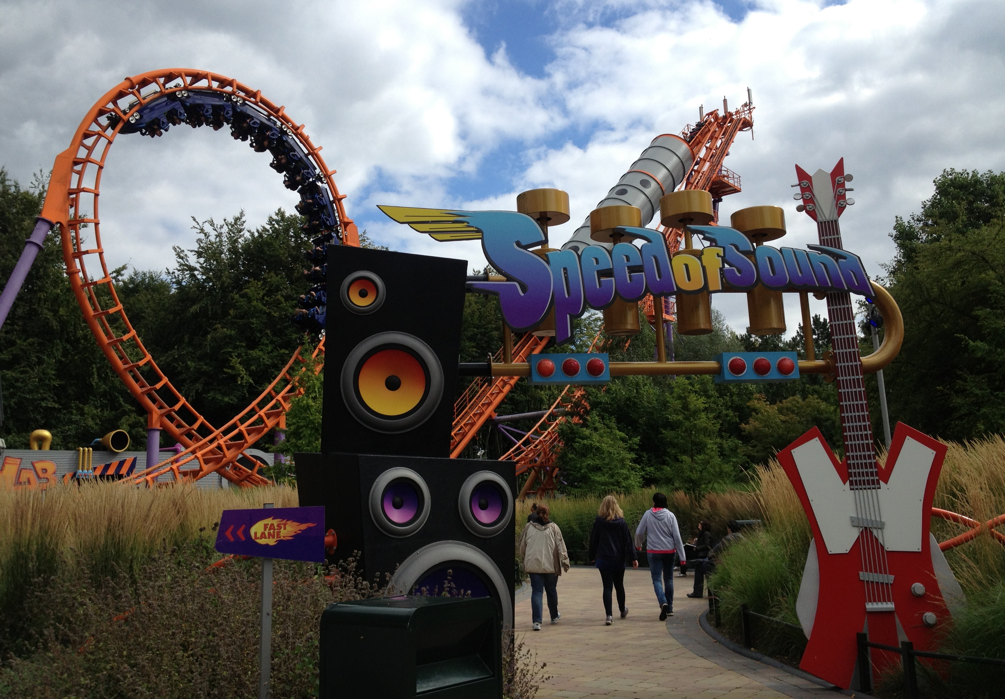 Speed of Sound at Walibi Holland